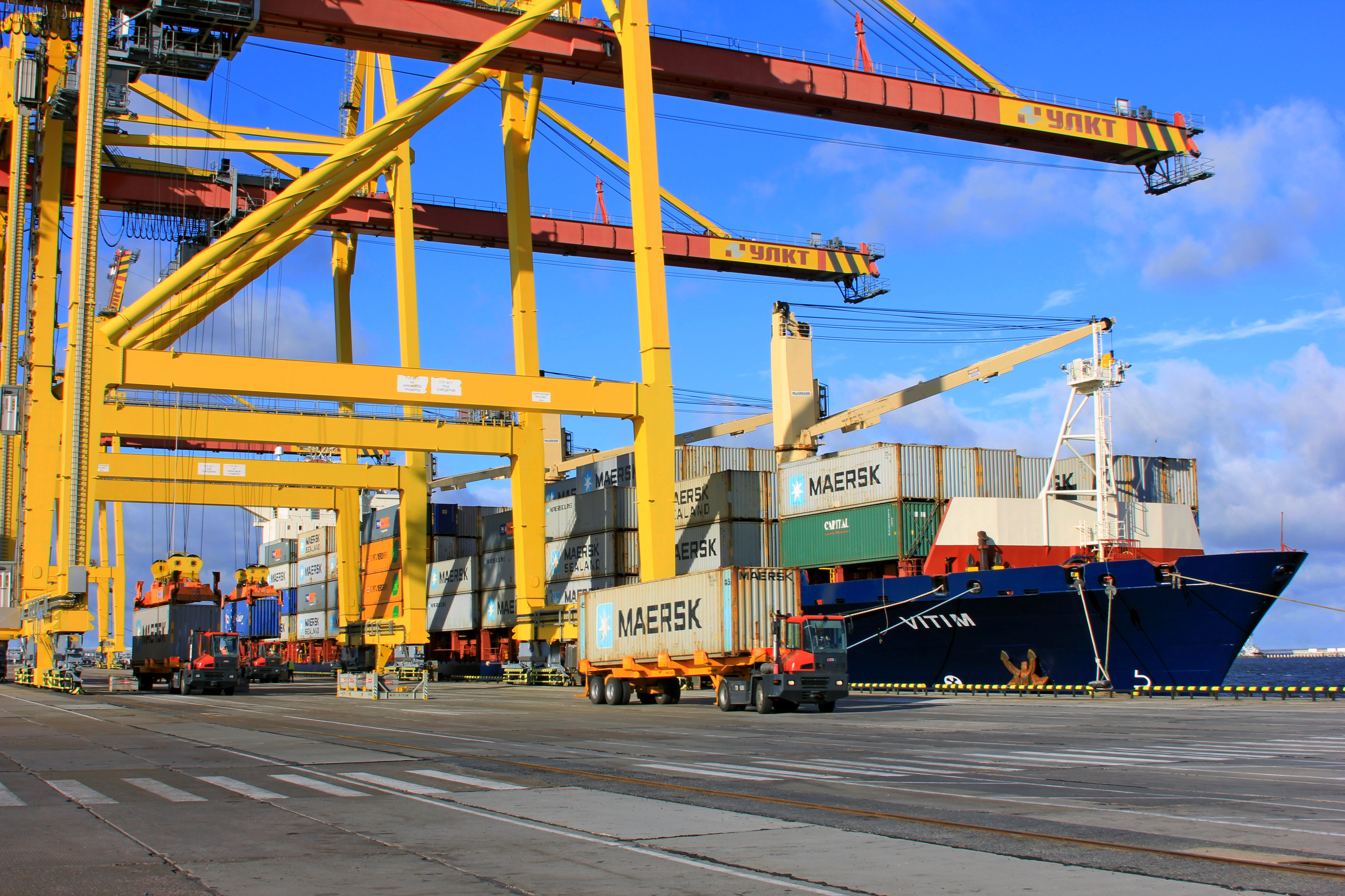 Ust-Luga Container terminal